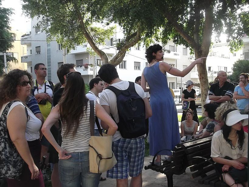 MK Tamar Zanberg guiding a walk during Jane's Walk event in Tel Aviv (2013)